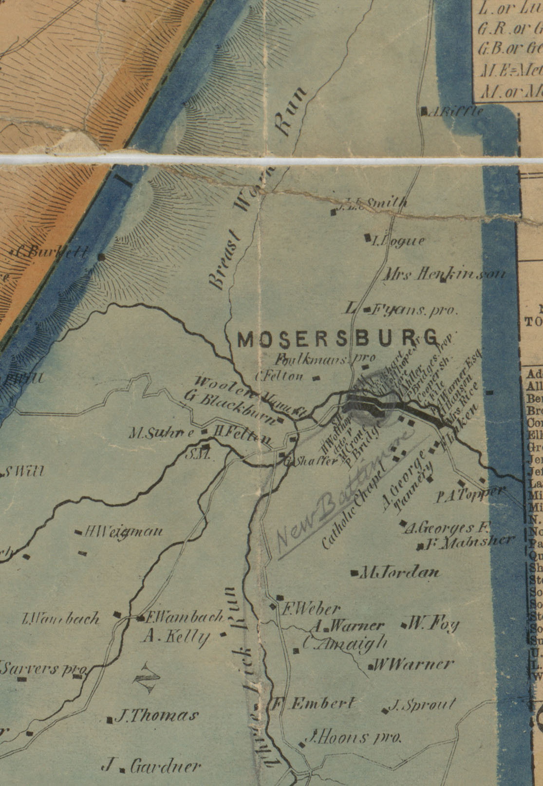 Map of Mosersburg (later named New Baltimore), Somerset County, Pennsylvania, taken from 1860 Edward L. Walker map of Somerset County available at the Library of Congress website